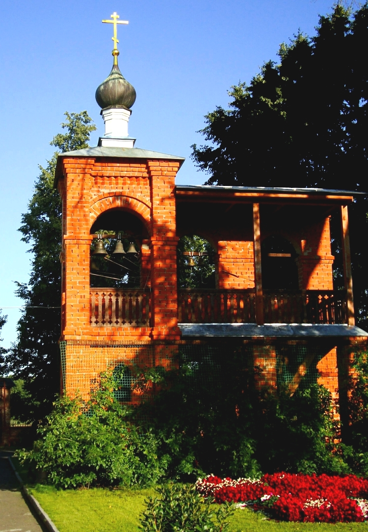 Zvonnitsa of Vvedenski monastery, Pokrov, Russia